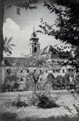 The southward side of Saint Gotthard Abbey